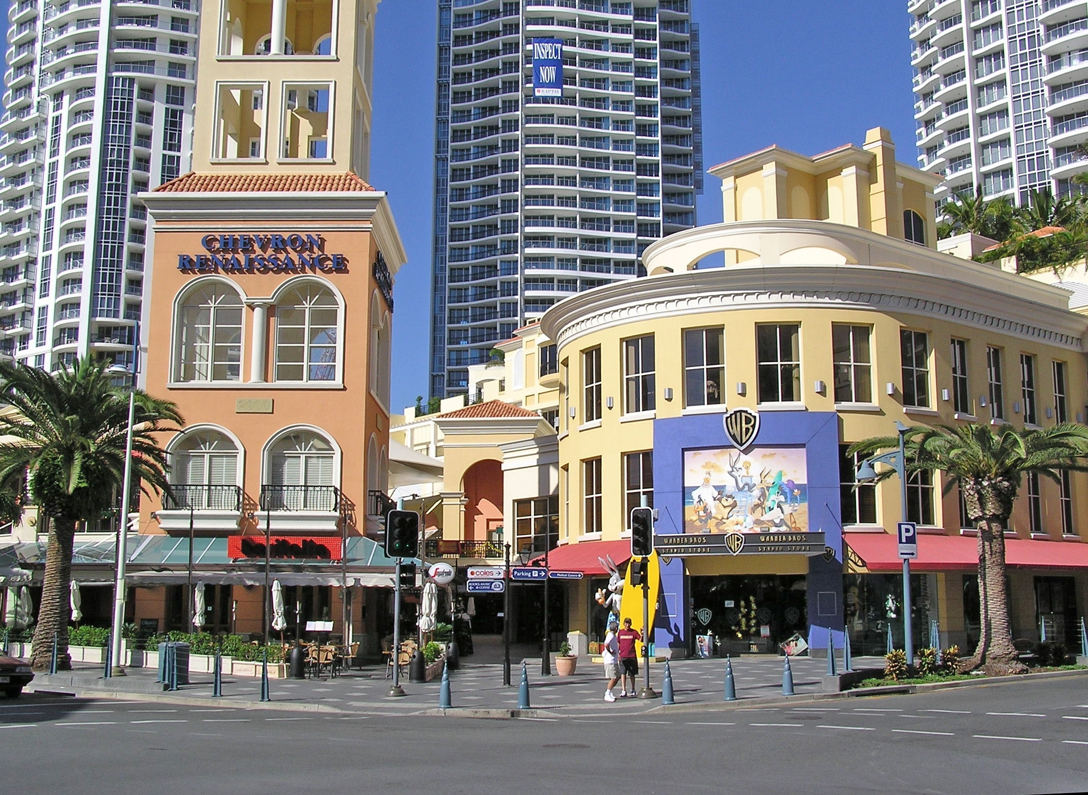 Chevron Renaissance Shopping Mall & Apartment Complex in the Gold Coast Highway